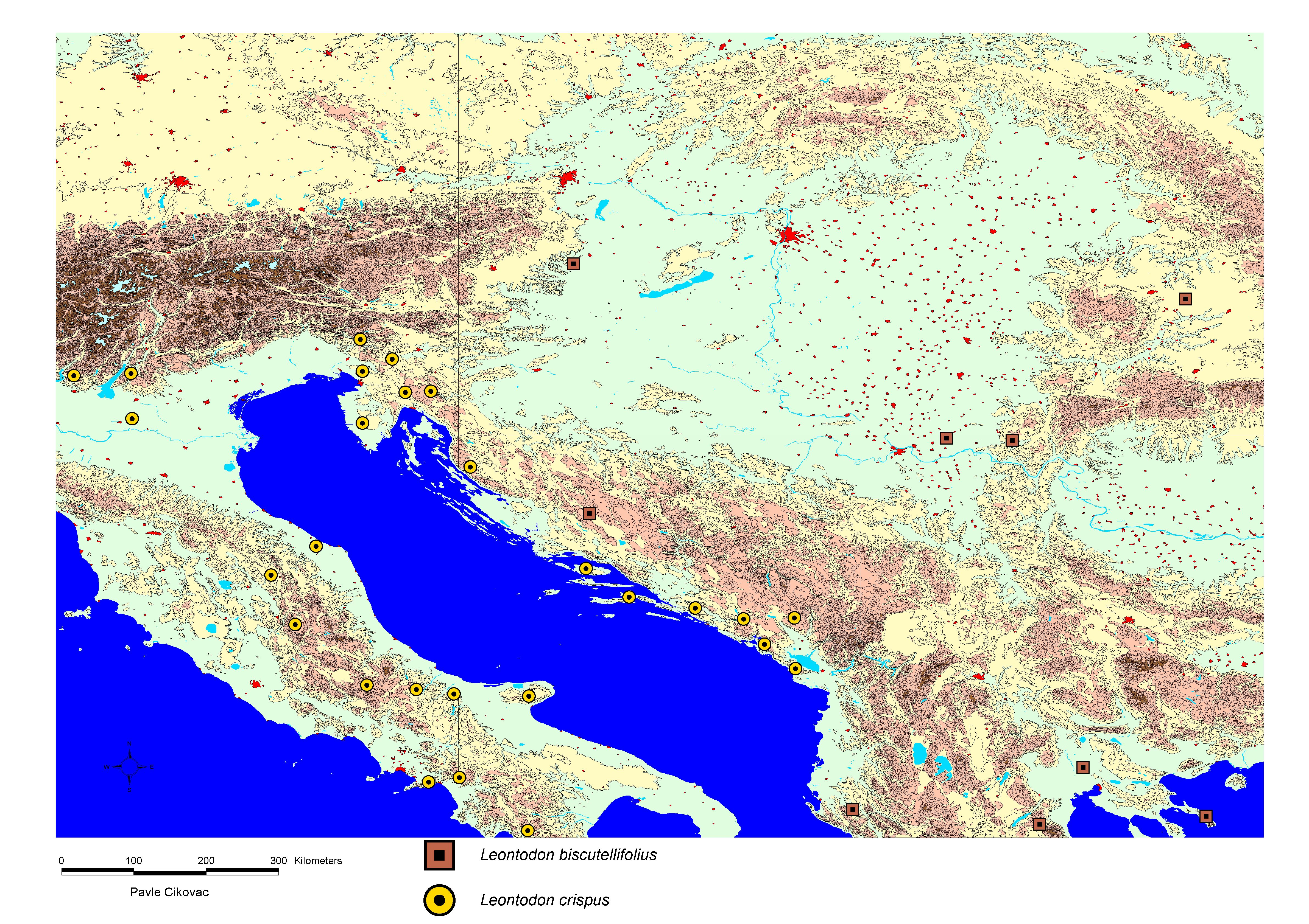 Leontodon crispus distribution after H. Pittoni 1974, Map 3, pp. 187: Behaarung und Chromosomenzahlen sternhaariger Leontodon Sippen. Phyrton, 16: 165-188